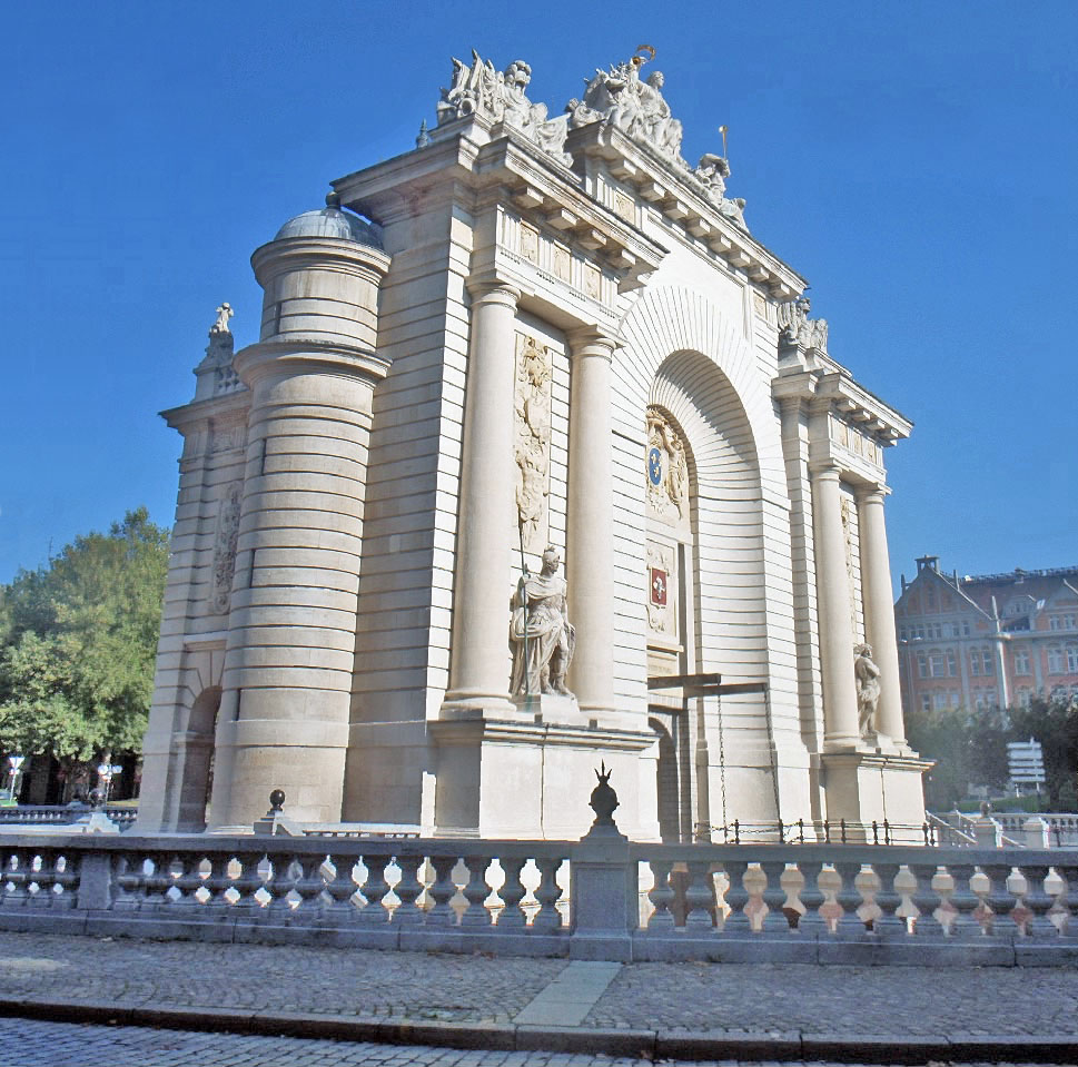 Paris' Gate (Porte de Paris) in Lille (France – Nord department)